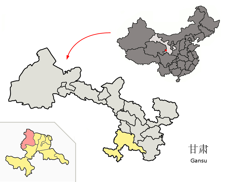 Location of Xiahe County (pink) and Gannan Prefecture (yellow) within Gansu province of China Map drawn in september 2007 using various sources, mainly : Gansu province administrative regions GIS data: 1:1M, County level, 1990 Gansu Counties map from